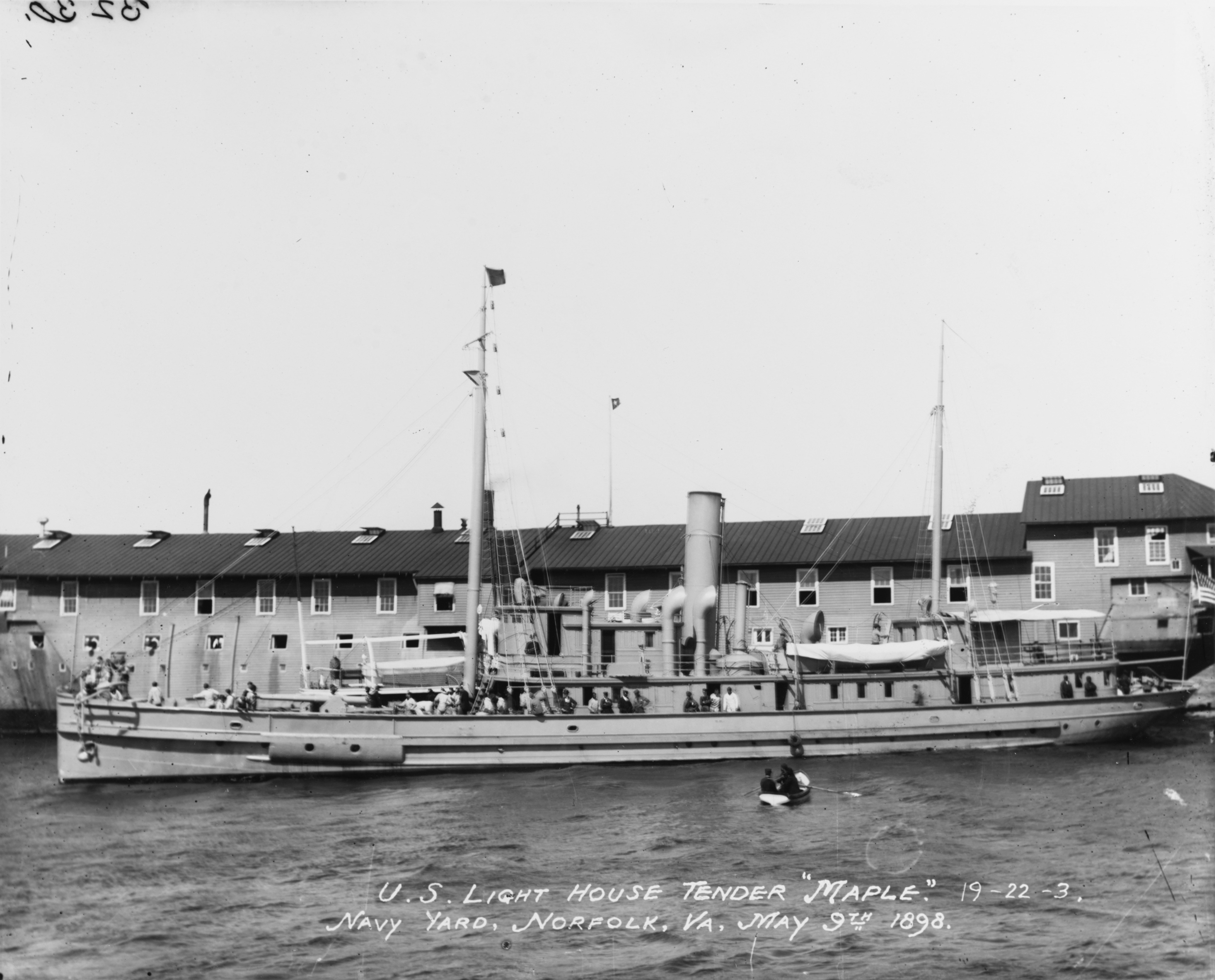 At the Norfolk Navy Yard, Portsmouth, Virginia, 9 May 1898. The receiving ship USS Franklin is in the background. Photograph from the Bureau of Ships Collection in the U.S. National Archives.